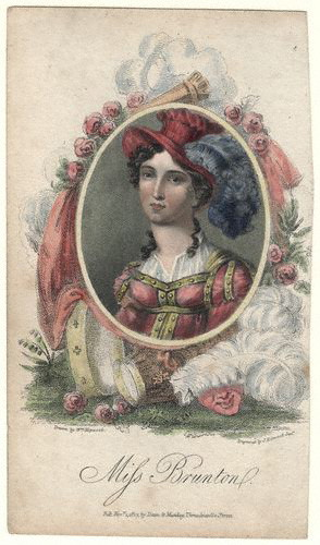 Portrait of Elizabeth Yates (née Brunton) (1799–1860), English actress, as Miss Brunton.